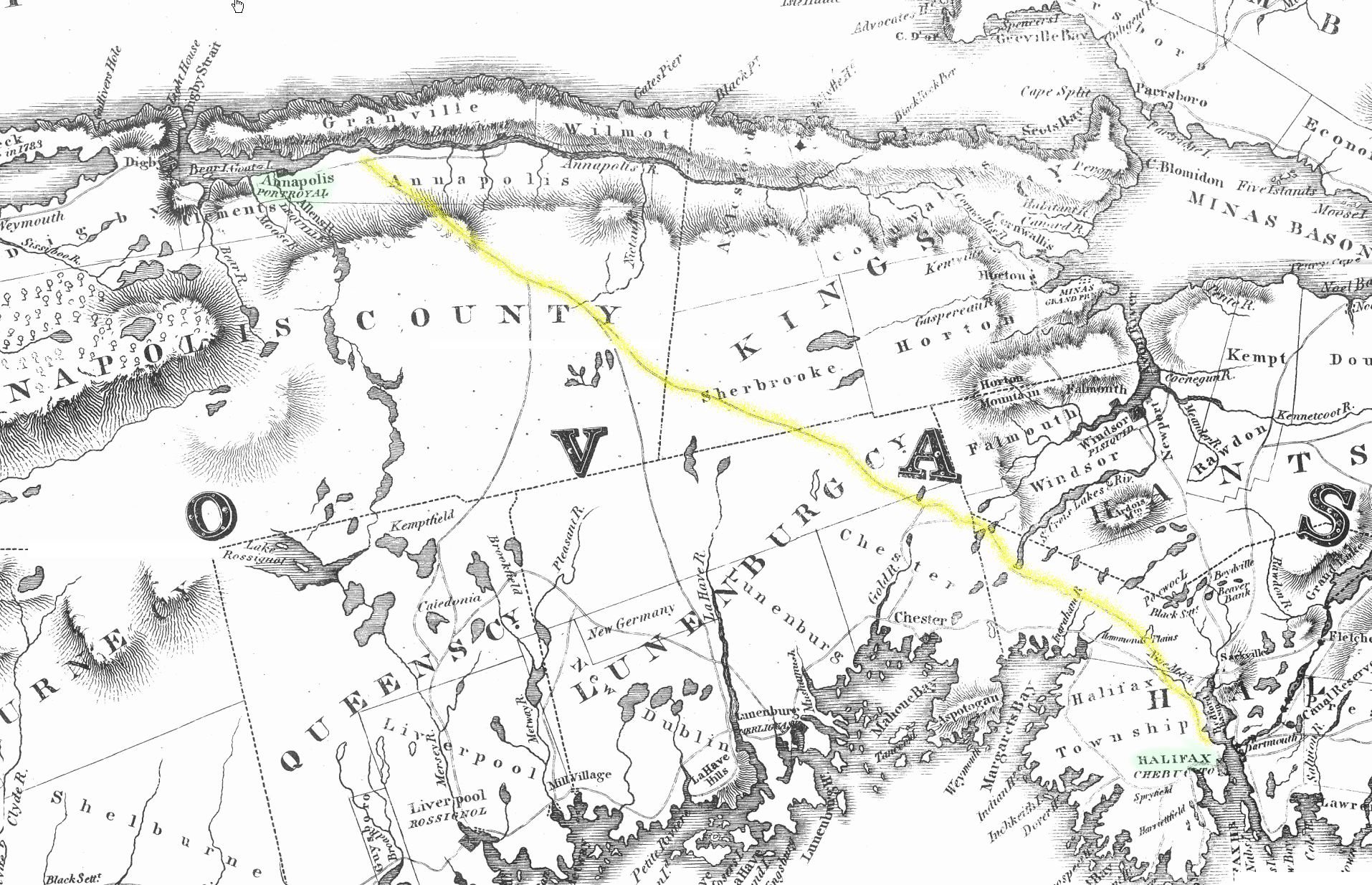 Section of the 1829 "New Map of Nova Scotia" showing the route of the road between Halifax and Annapolis, Nova Scotia.